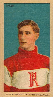 1910–11 Imperial Tobacco Co. hockey card #26 of Renfrew player Lester Patrick